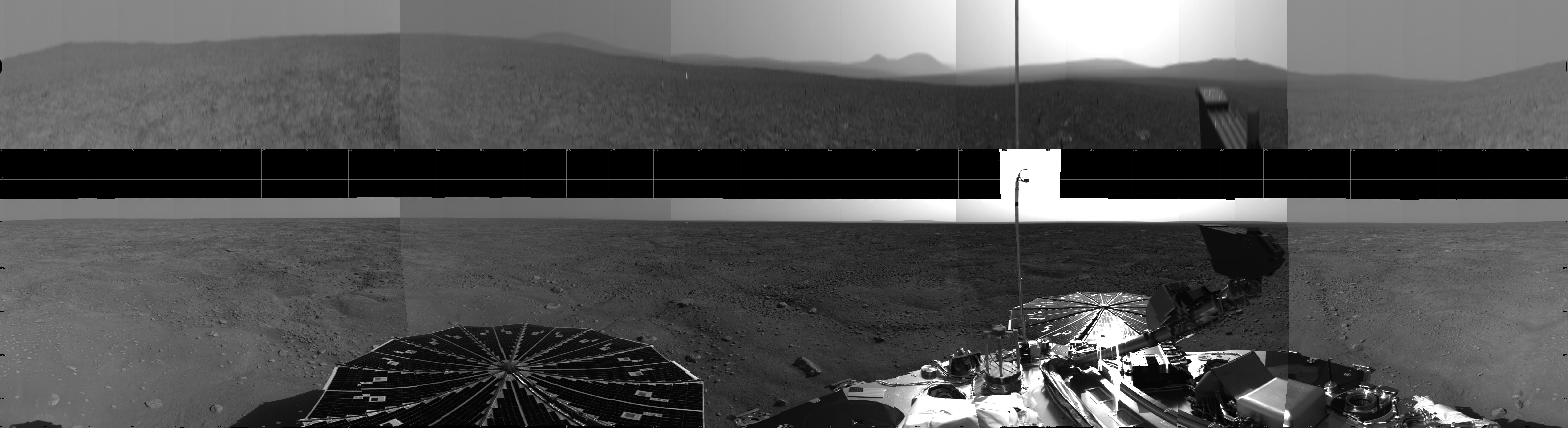 This 360-degree view from NASA's Phoenix Mars Lander shows the spacecraft's solar arrays, lander deck and the Martian polar landscape beyond. The top portion has been stretched eight fold to show details of features in the background. Phoenix's parachute, backshell, heatshield, and impact site can also be seen. The hummocky terrain has a network of troughs and very few rocks, typical of polar surfaces here on Earth. Phoenix's Surface Stereo Imager captured the images making up this mosaic on the first and third martian days, or sols, of the mission (May 26 and 28, 2008). The spacecraft is capable of taking color, high-resolution photos, but its first priority is to scan its surroundings with black-and-white, lower-resolution images like these. The Phoenix Mission is led by the University of Arizona, Tucson, on behalf of NASA. Project management of the mission is by NASA's Jet Propulsion Laboratory, Pasadena, Calif. Spacecraft development is by Lockheed Martin Space Systems, Denver.